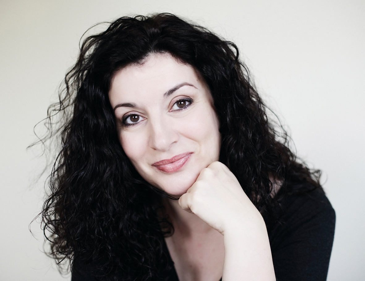 Israeli food writer Janna Gur (2007)